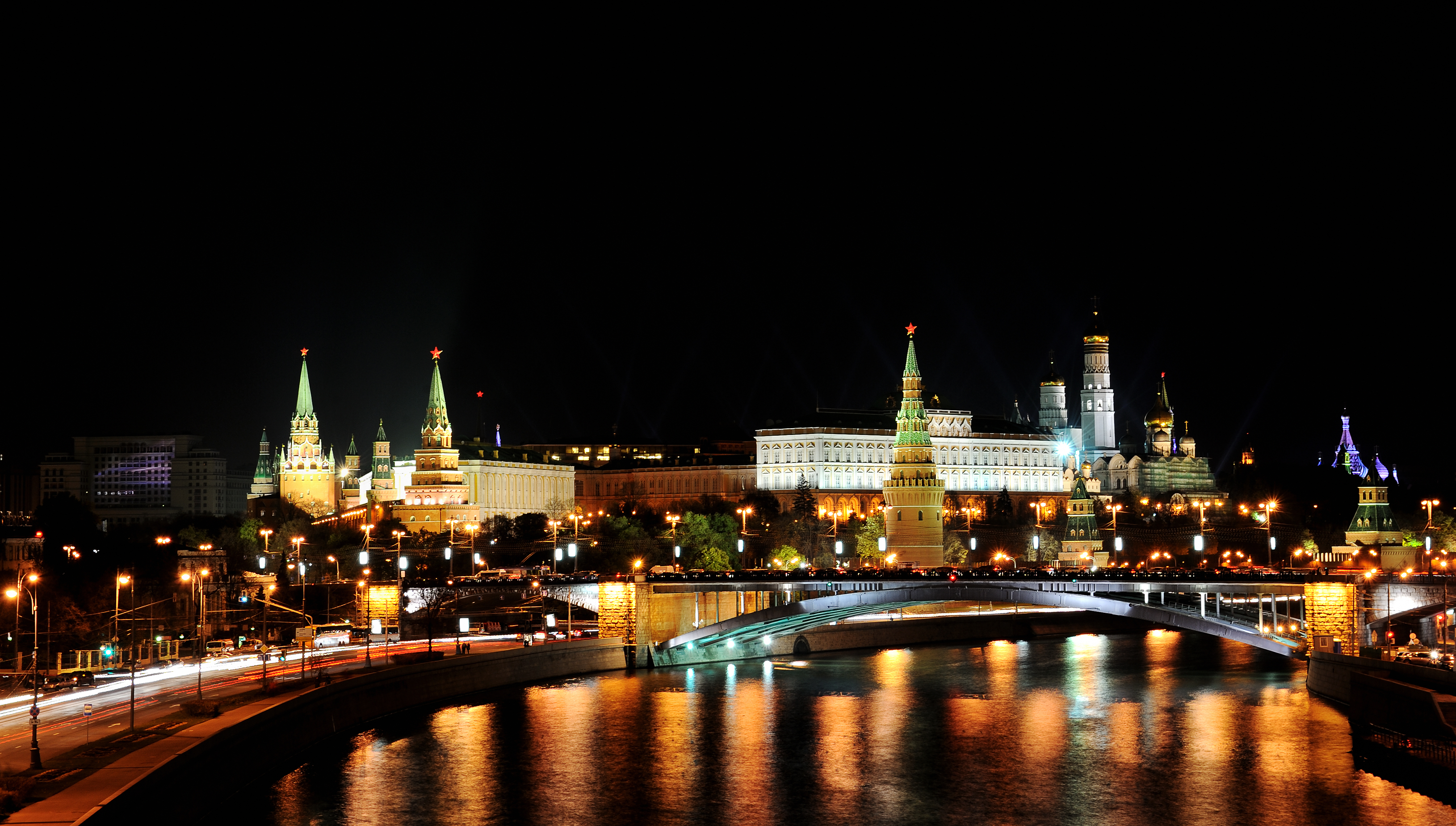 Night Moscow